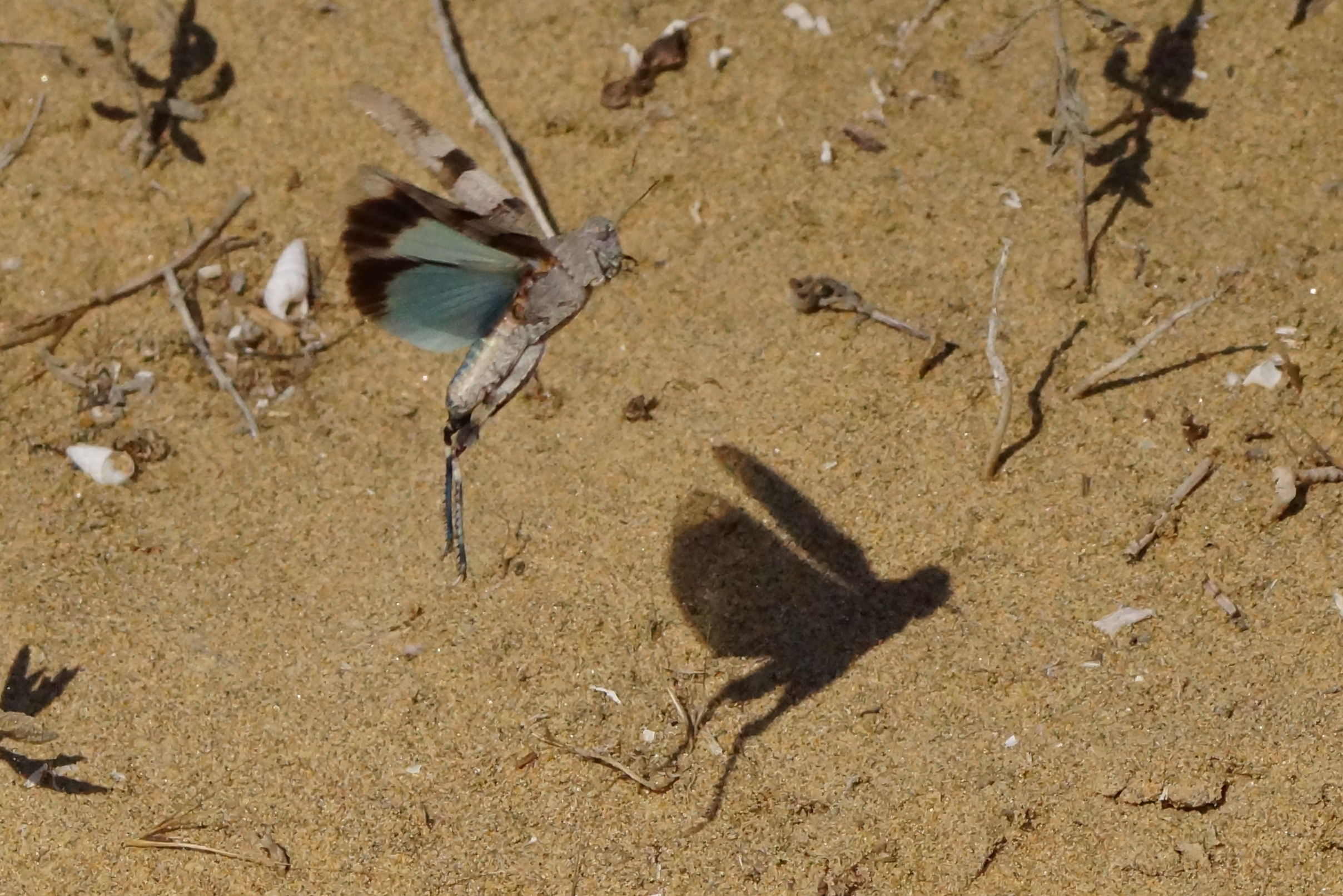 Oedipoda caerulescens in flight , dunes of Bibione Pineda Italy